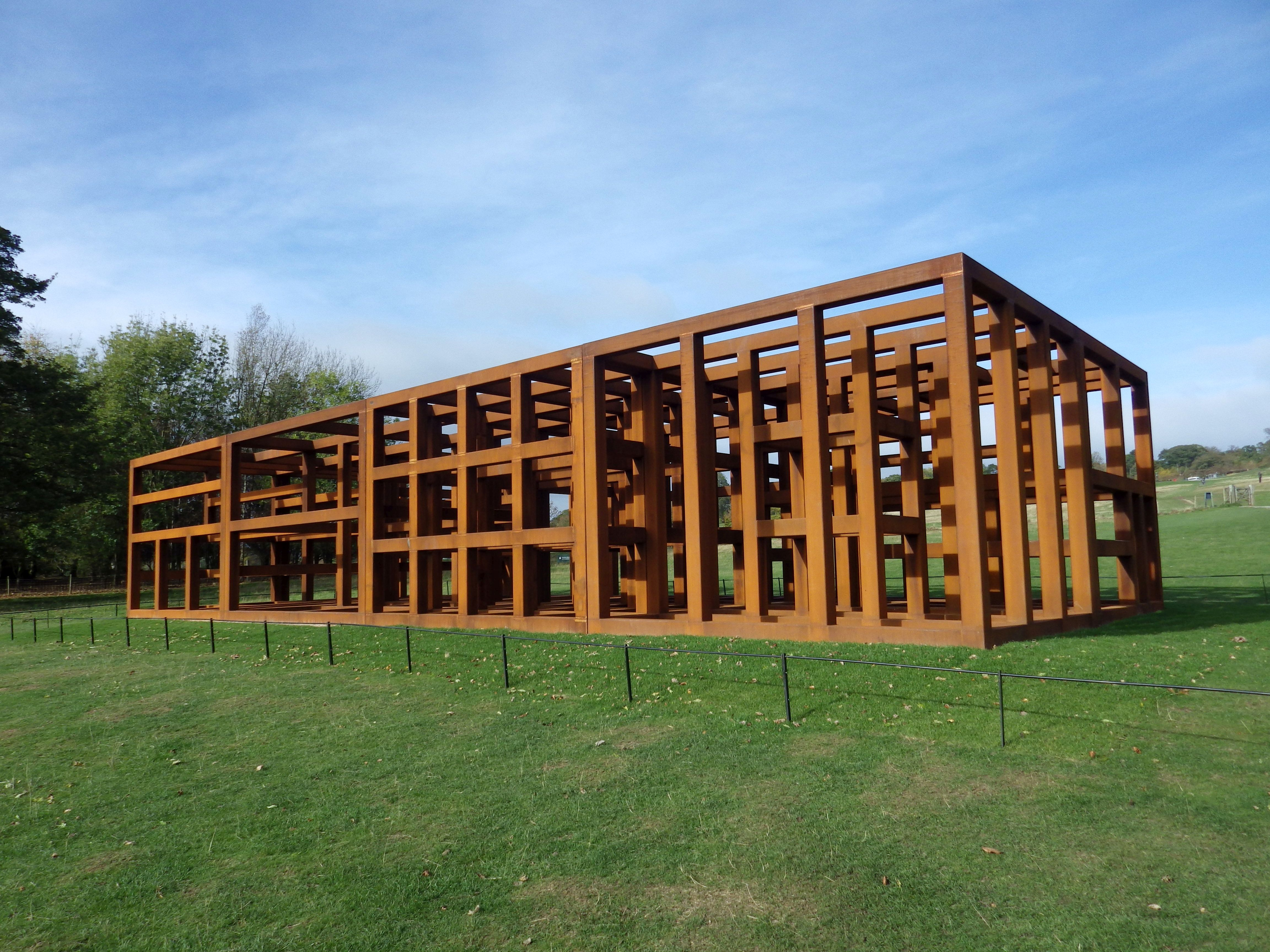 A photo of Crate of Air, by Sean Scully, 2018. Photographed at the 2018 Inside Outside exhibition in Yorkshire Sculpture Park.